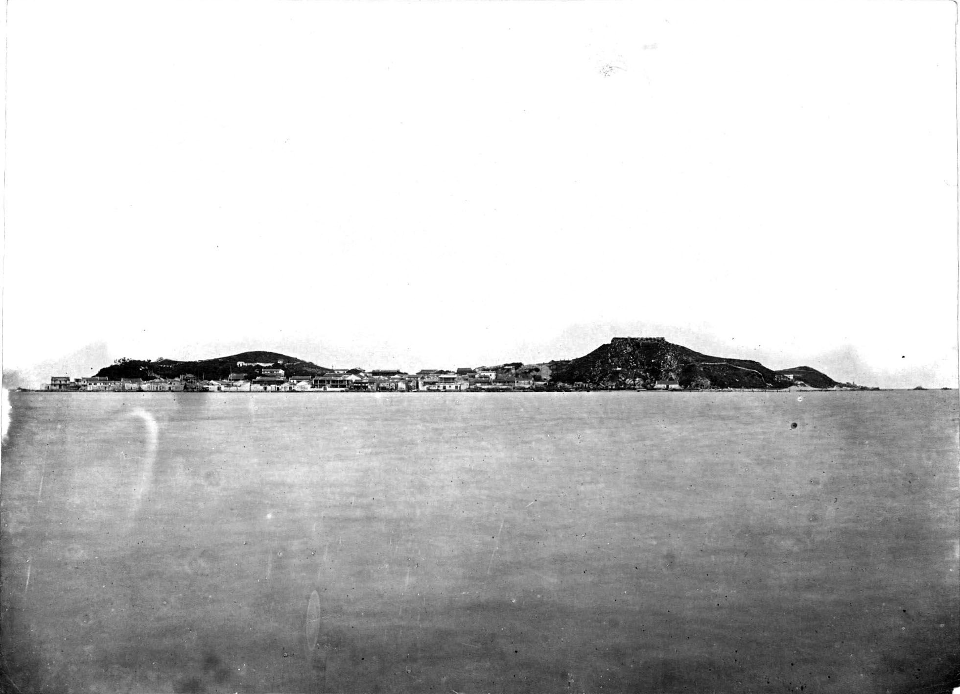 Photograph in From Afong, Photographer.